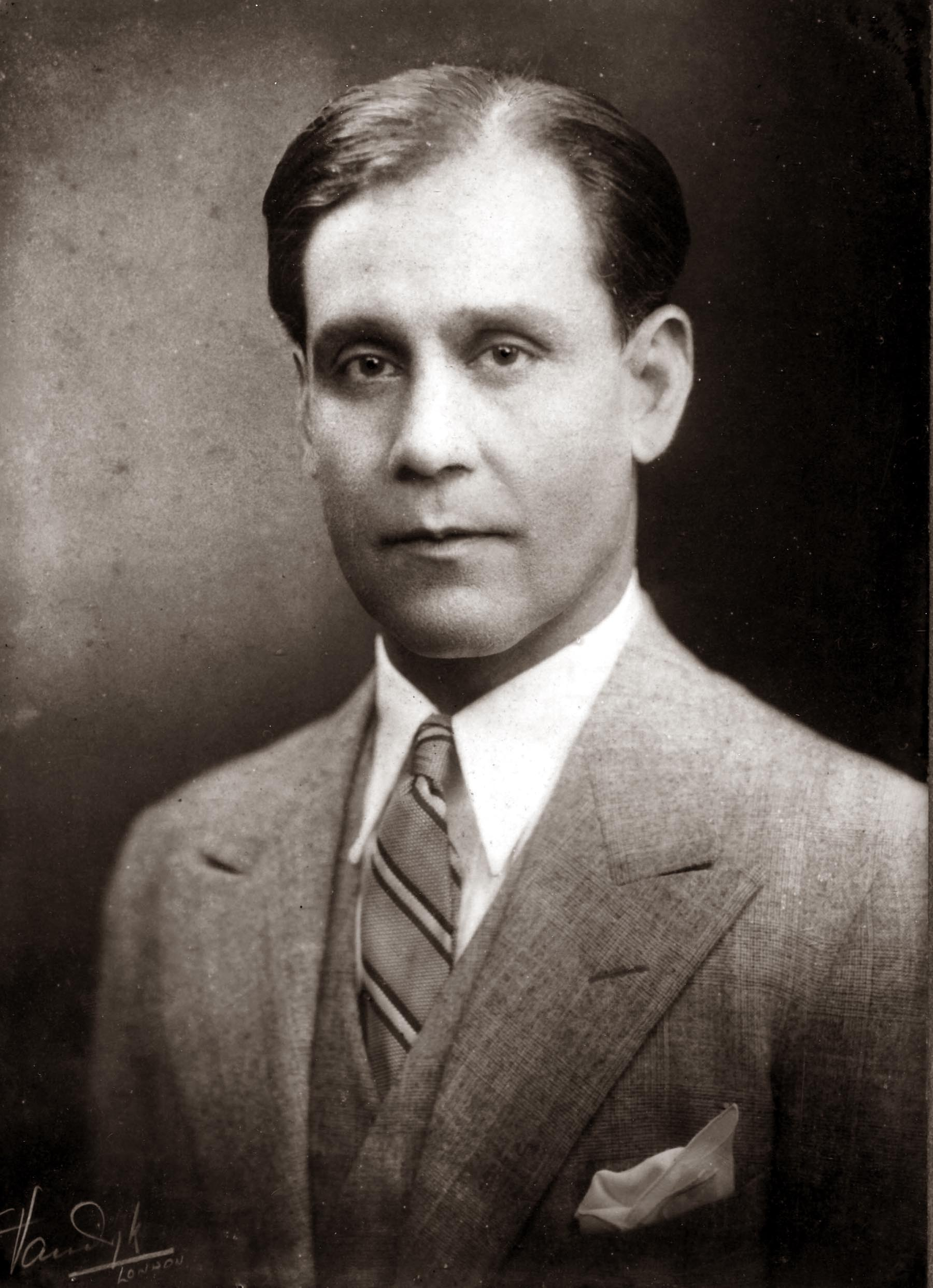 Nawab Hmidulla Khan